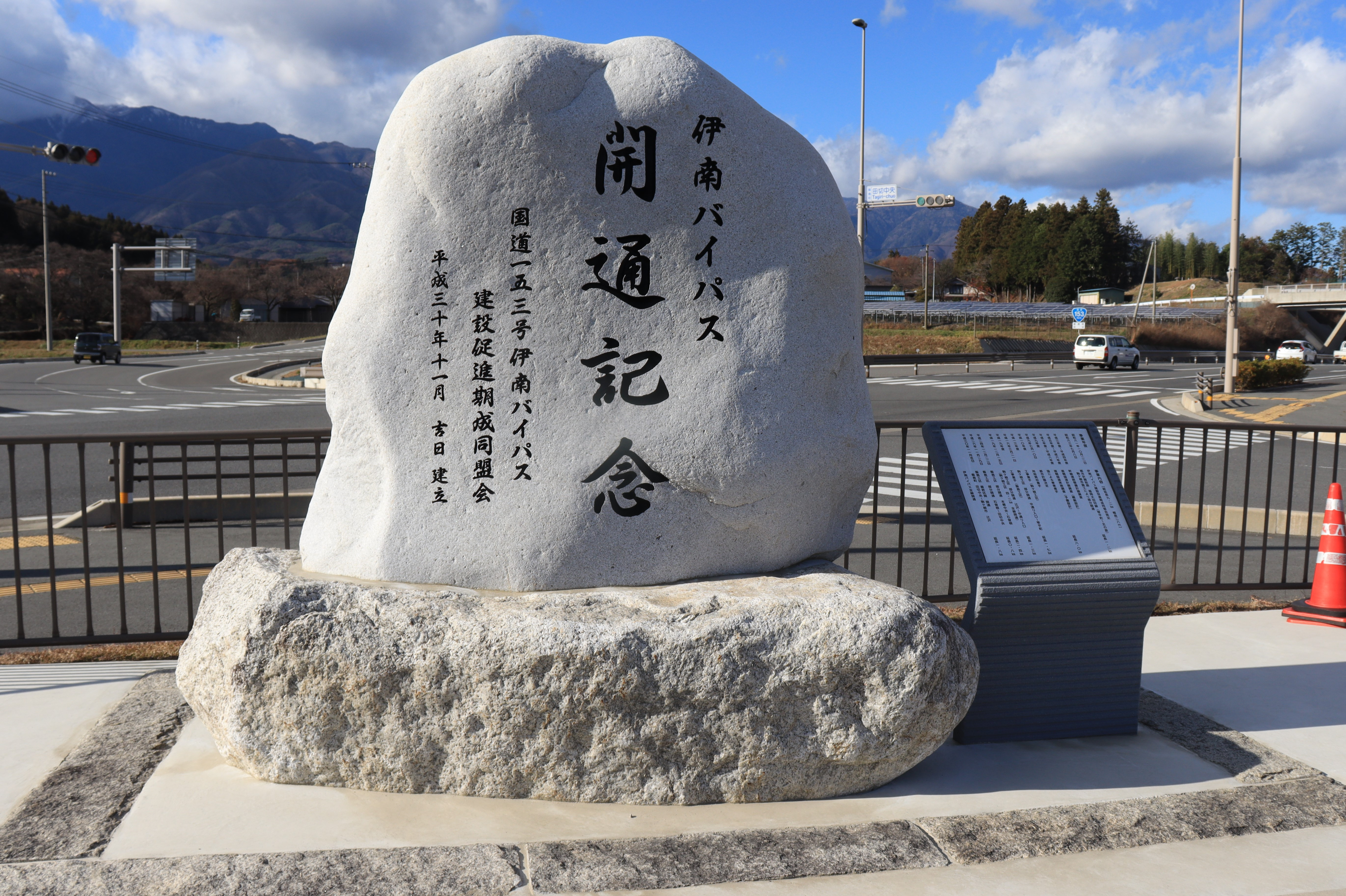 Monument of Inan Bypass (Route 153) in Tagiri, Iijima, Nagano Prefecture, Japan.